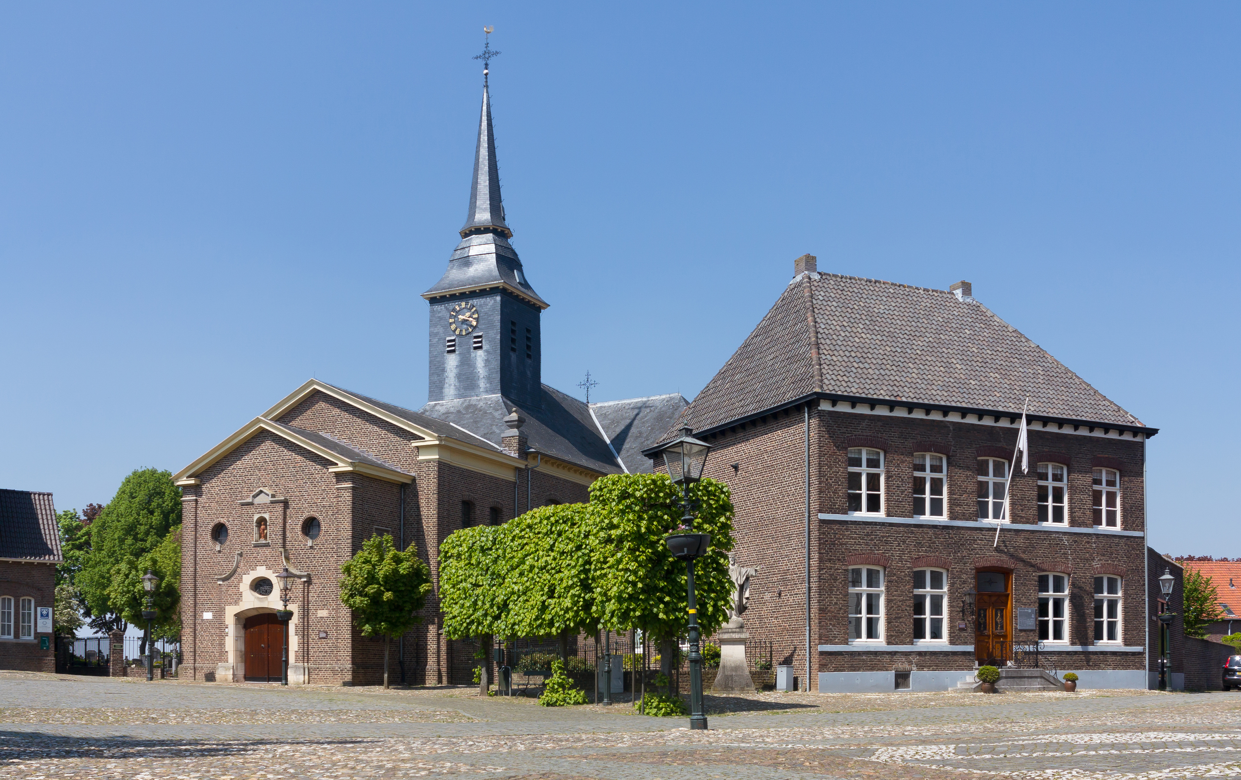 Stevensweert, church (de Sint Stephanuskerk) and parsonage